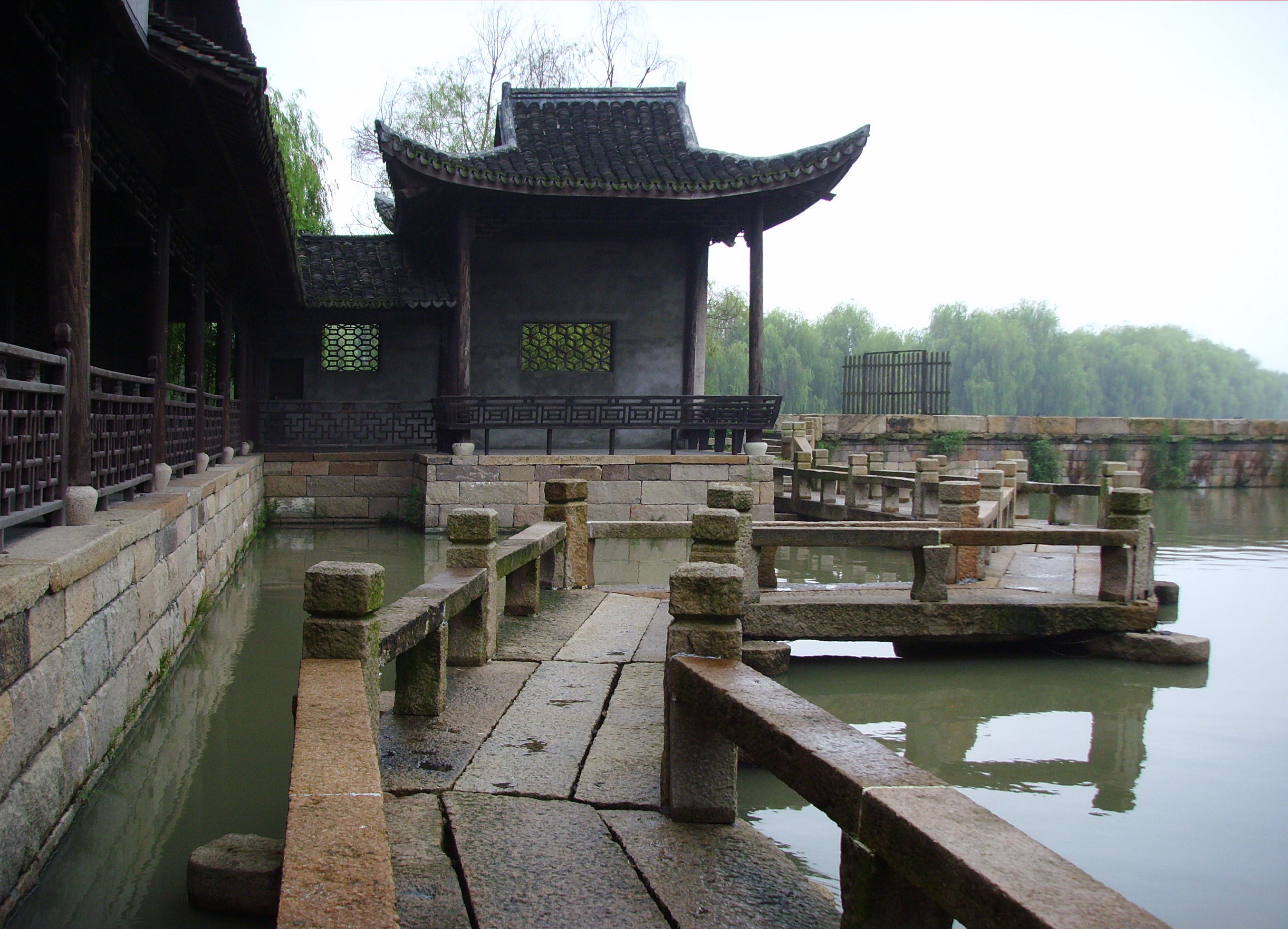 Wuzhen Xizha, Tongxiang, Zhejiang, P. R. of China: footbridge